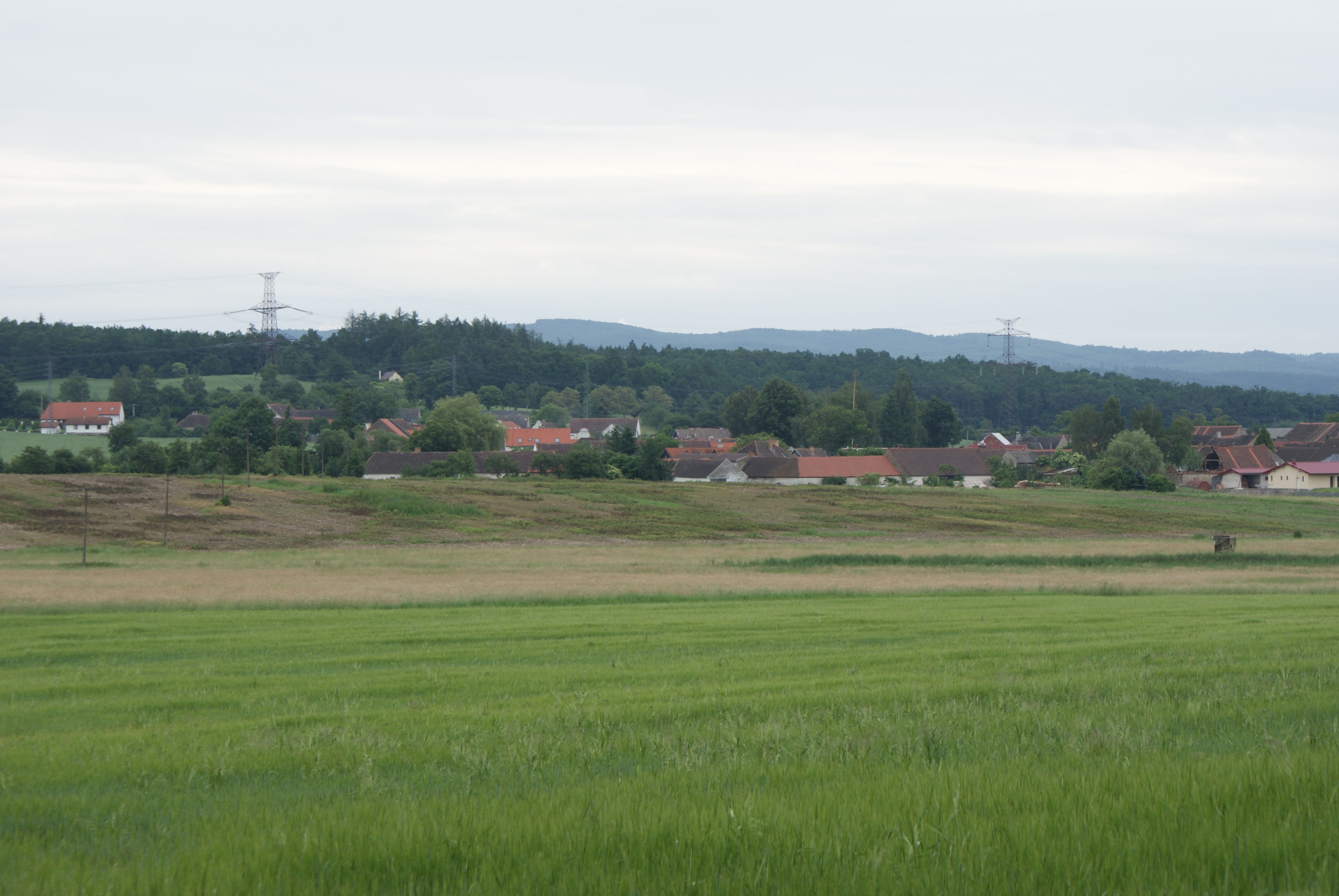 Selibov, a village in Písek district, Czech Republic, general view. Česky: Selibov, okres Písek, celkový pohled